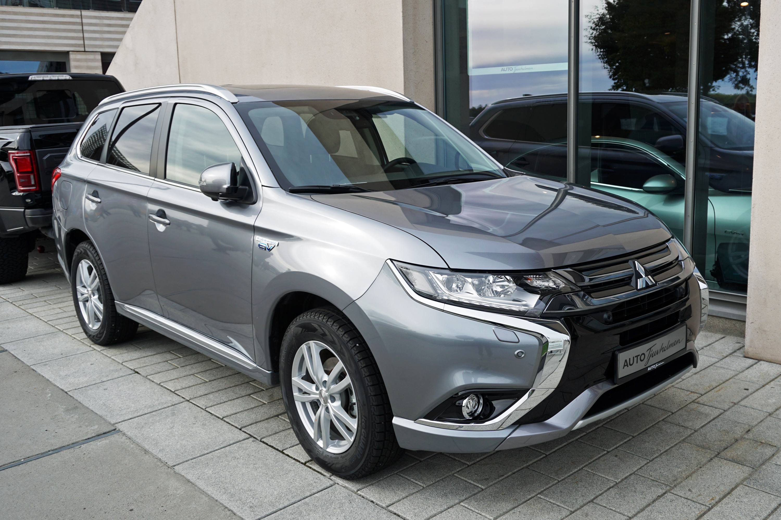 Mitsubishi Outlander Plug-in Hybrid EV in Oslo, Norway.